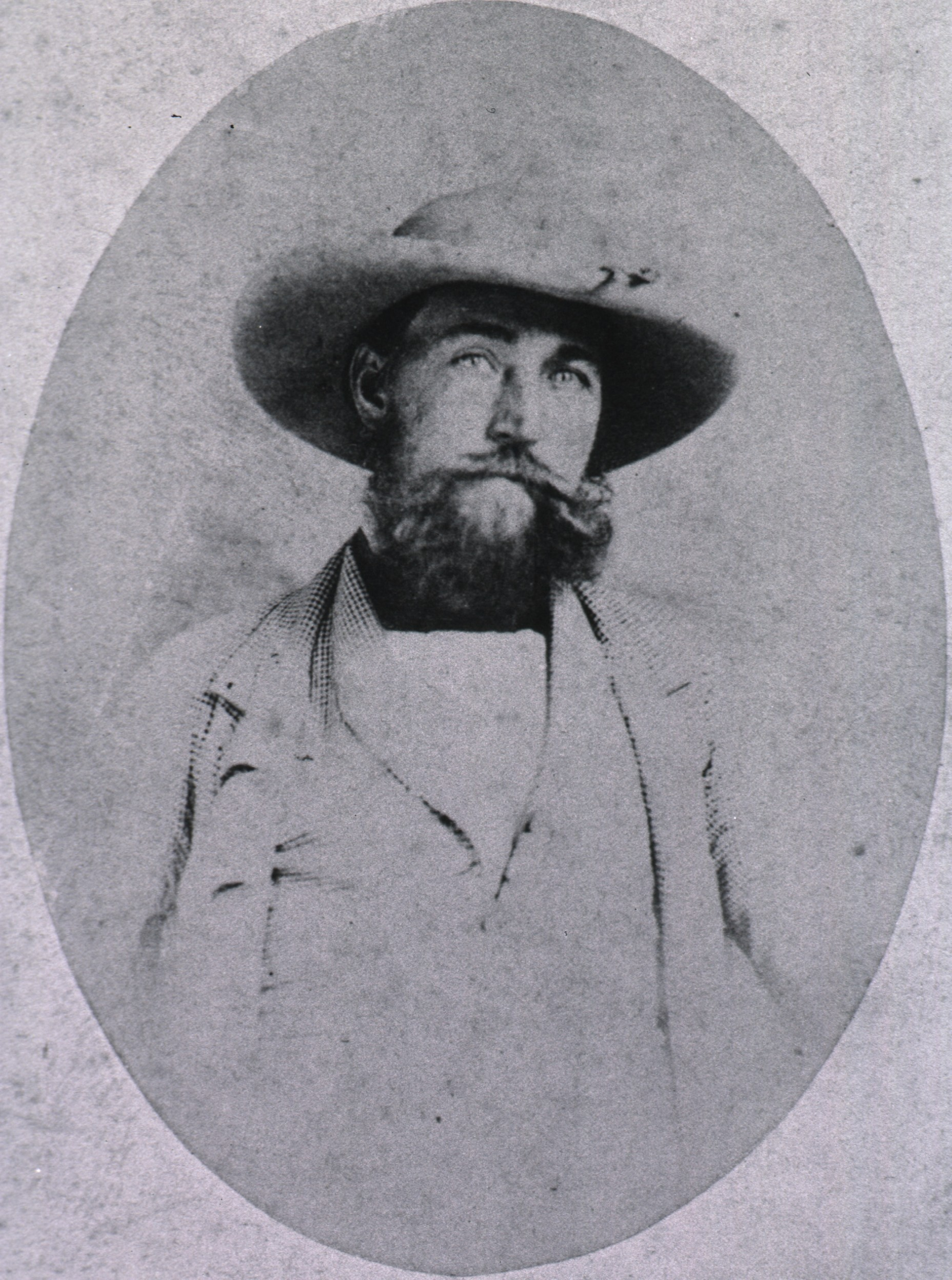 Madison Mills